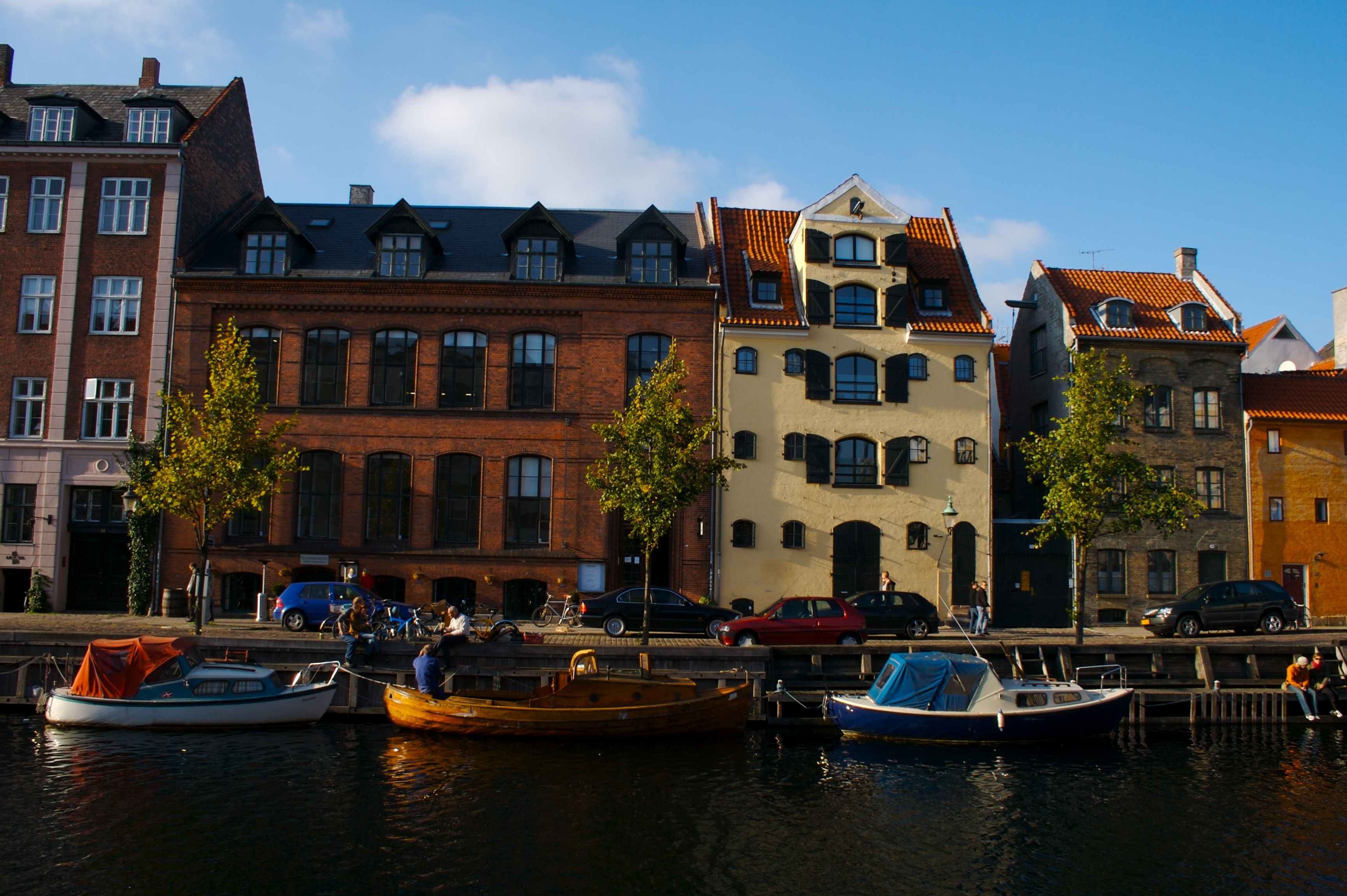 Ovengaden Neden Vandet no. 17-19 at Christianshavns Kanal in the Christianshavn district of Copenhagen, Denmark. No. 17 (to the left) houses the Ovengaden Institute of Contemporary Art and is a former factory building from 1887 designed by Frederik Bøttger. Sources: Mo. 17 and No. 19